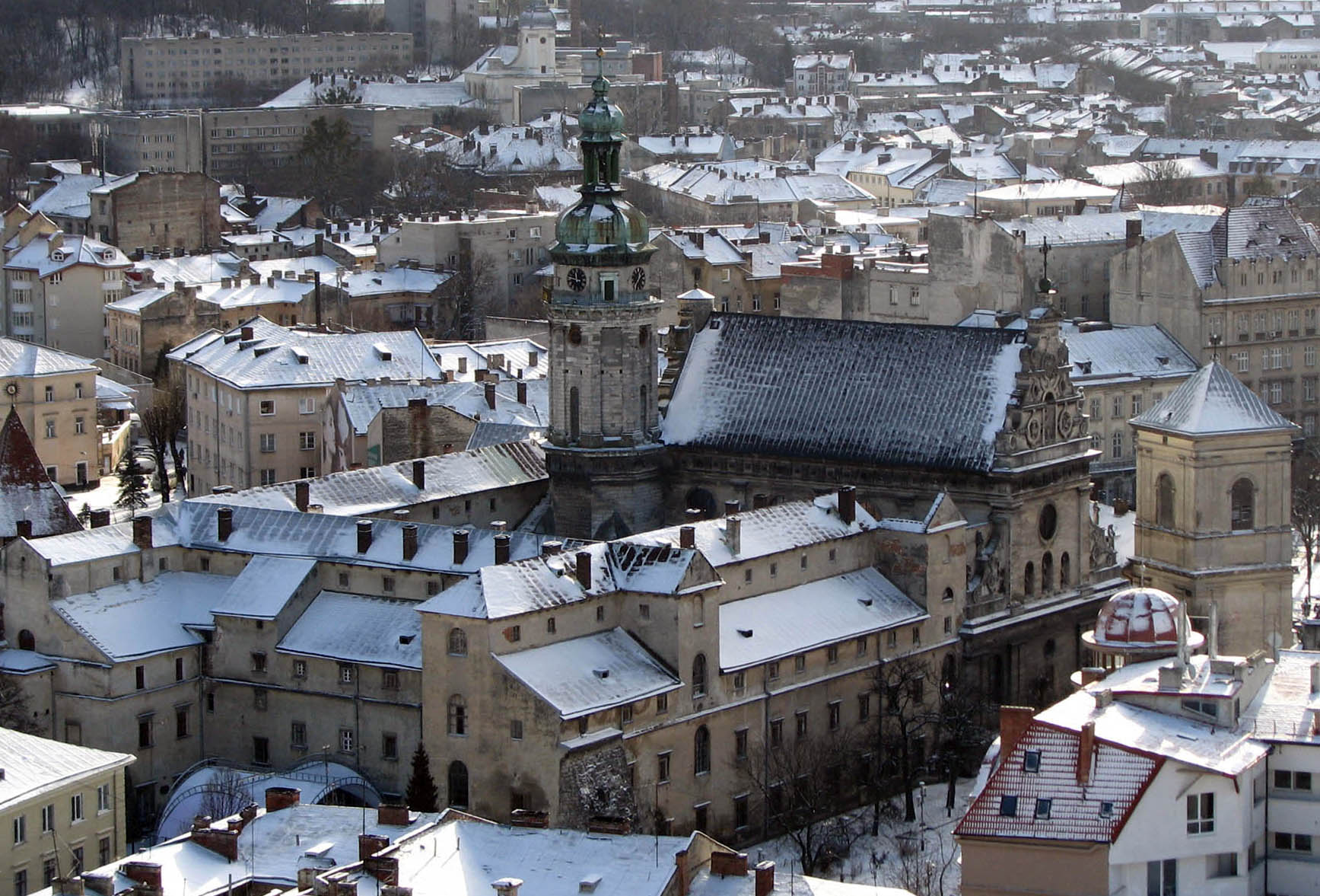 Bernardine church and monastery in Lviv